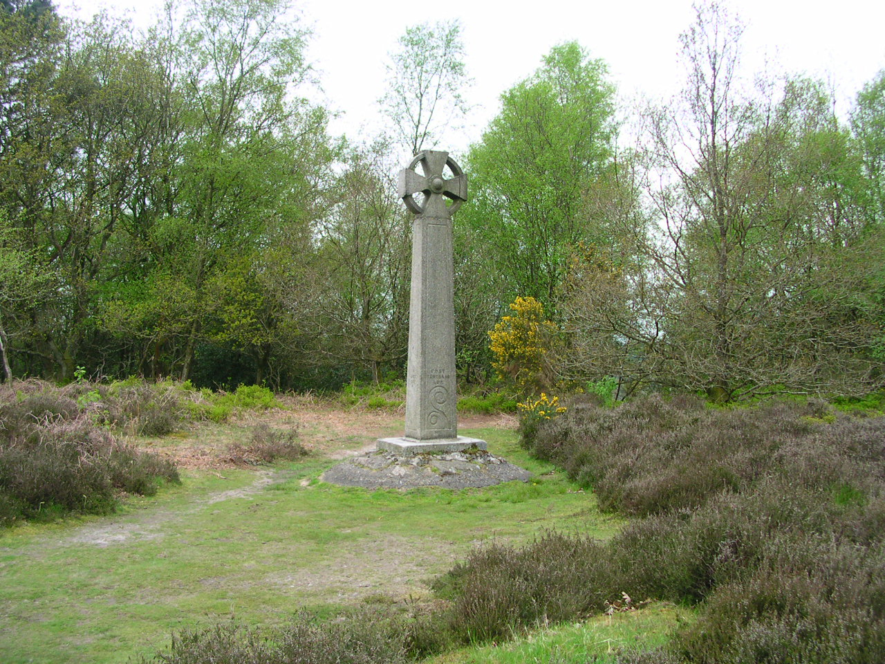 The stone cross on Gibbet Hill, Hindhead, Surrey, England.